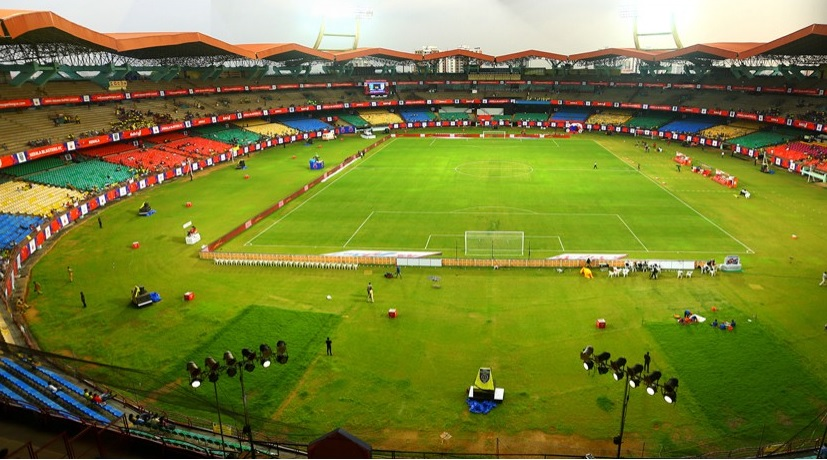 The Jawaharlal Nehru Stadium ,Kaloor,Kochi,Kerala,India is the home ground of Kerala Blasters FC which plays in the Indian Super League